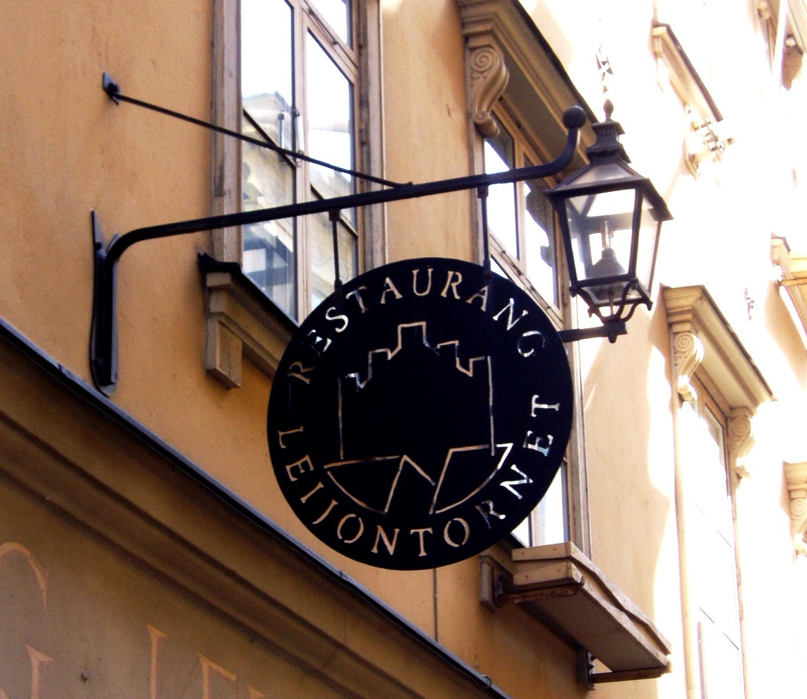 Sign restaurant Leijontornet, Old town, Stockholm